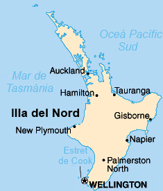 Map of the North Island of New Zealand in Catalan.